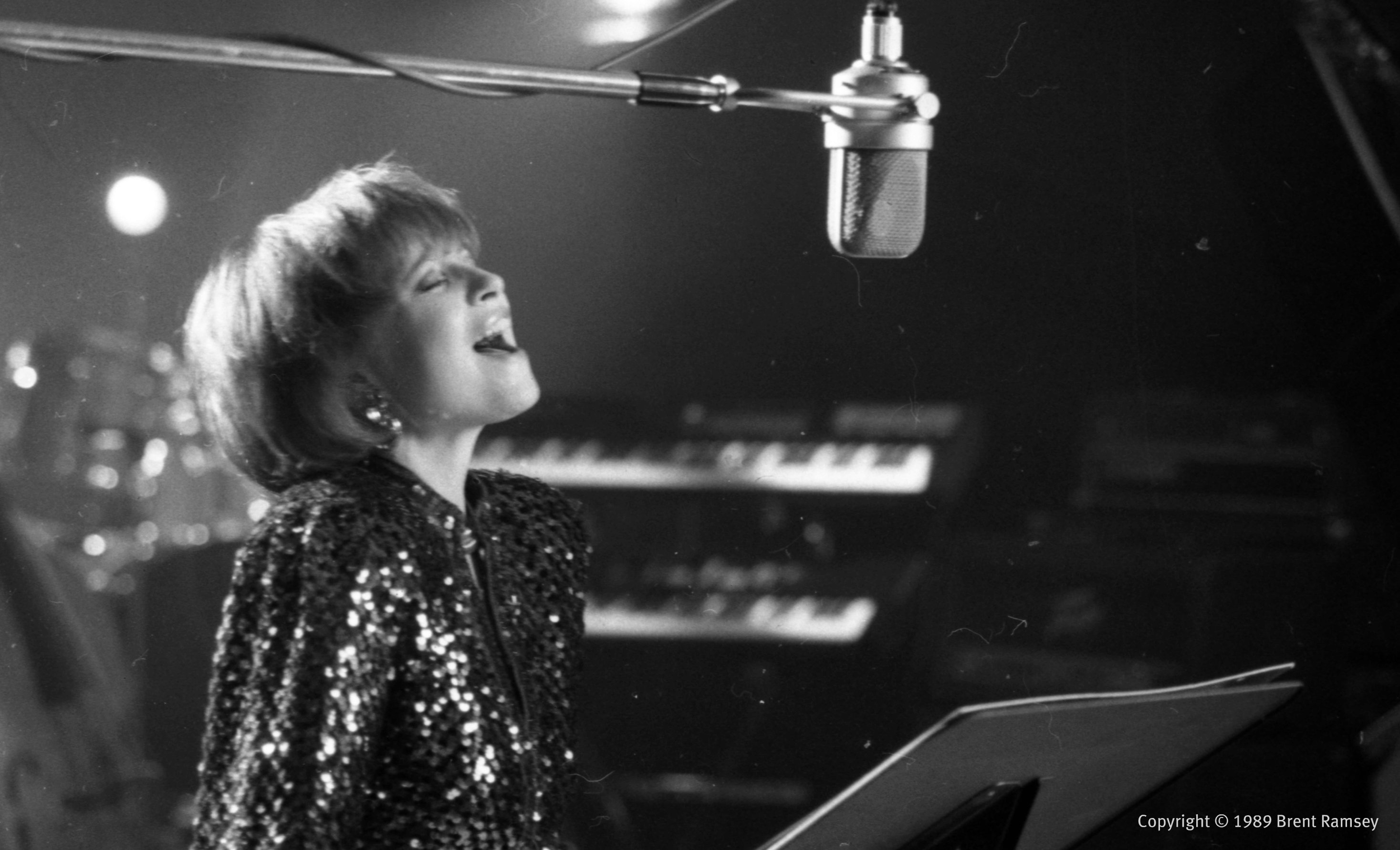 Kasey Cisyk. Filming "Have You Driven a Ford Lately?" in Denver, Colorado.